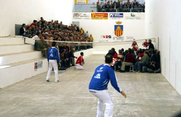 1st final match of the 2007/08 Circuit Bancaixa championship, Valencian pilota's Escala i corda.